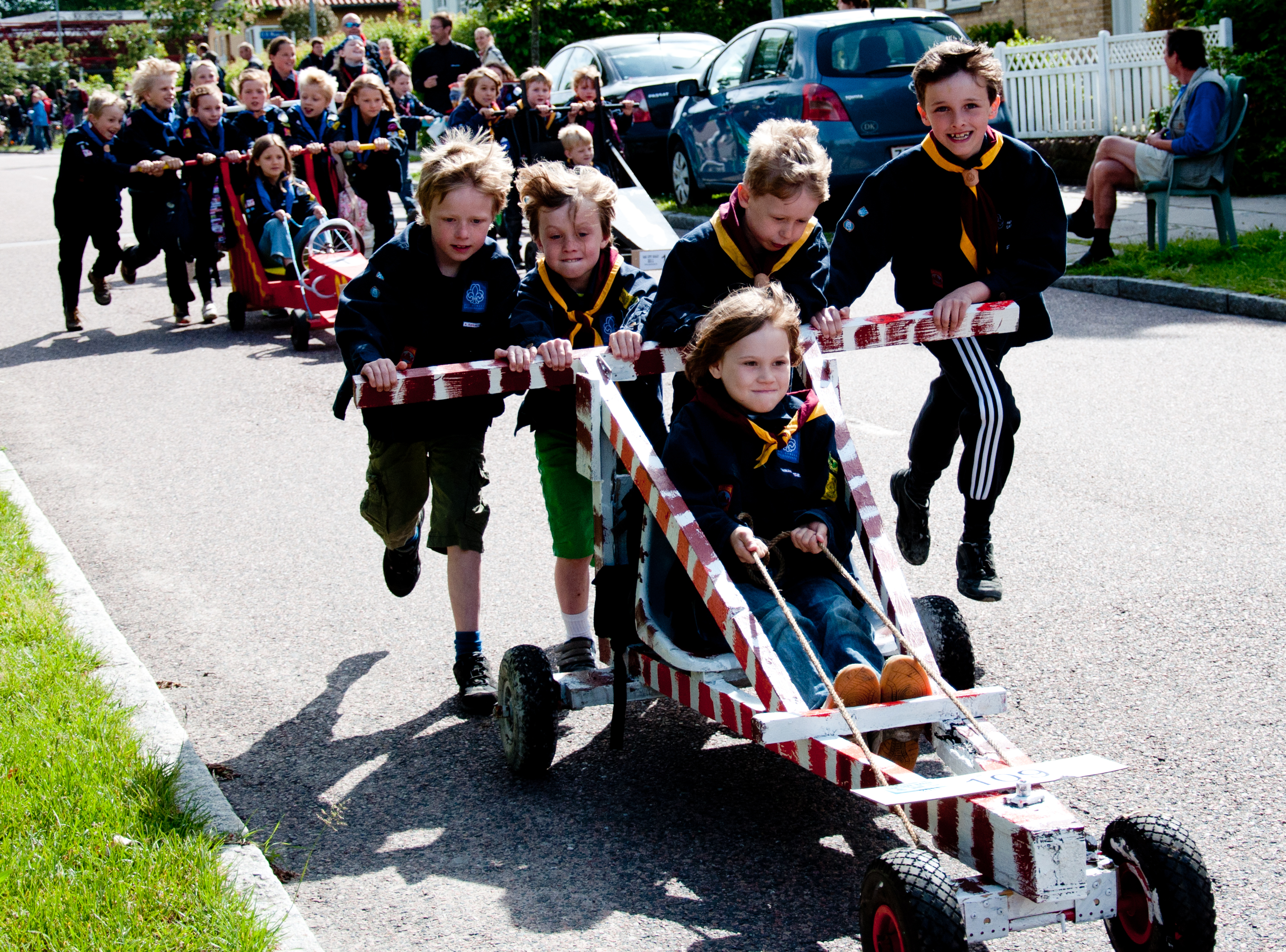 A soapbox car at Oak City Rally in 2011